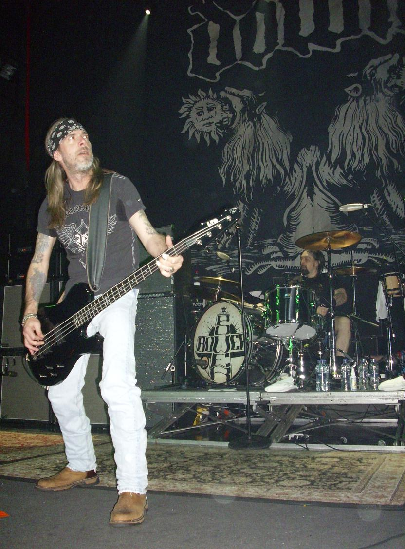 Rex Brown, the ex-basist of Pantera and current member of Down band. Playing in Sala Joy Eslava in Madrid , 25 April 2008